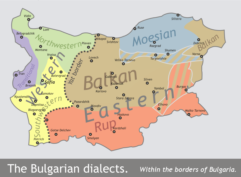 Map of the Bulgarian dialects. Based on Стойков, Стойко (2002) [1962] (in bulgarian) Българска диалектология, София: Акад. изд. "Проф. Марин Дринов" ISBN: 9544308466. OCLC: 53429452. Originally a vector work, but I seem to be having trouble with exporting it to SVG.